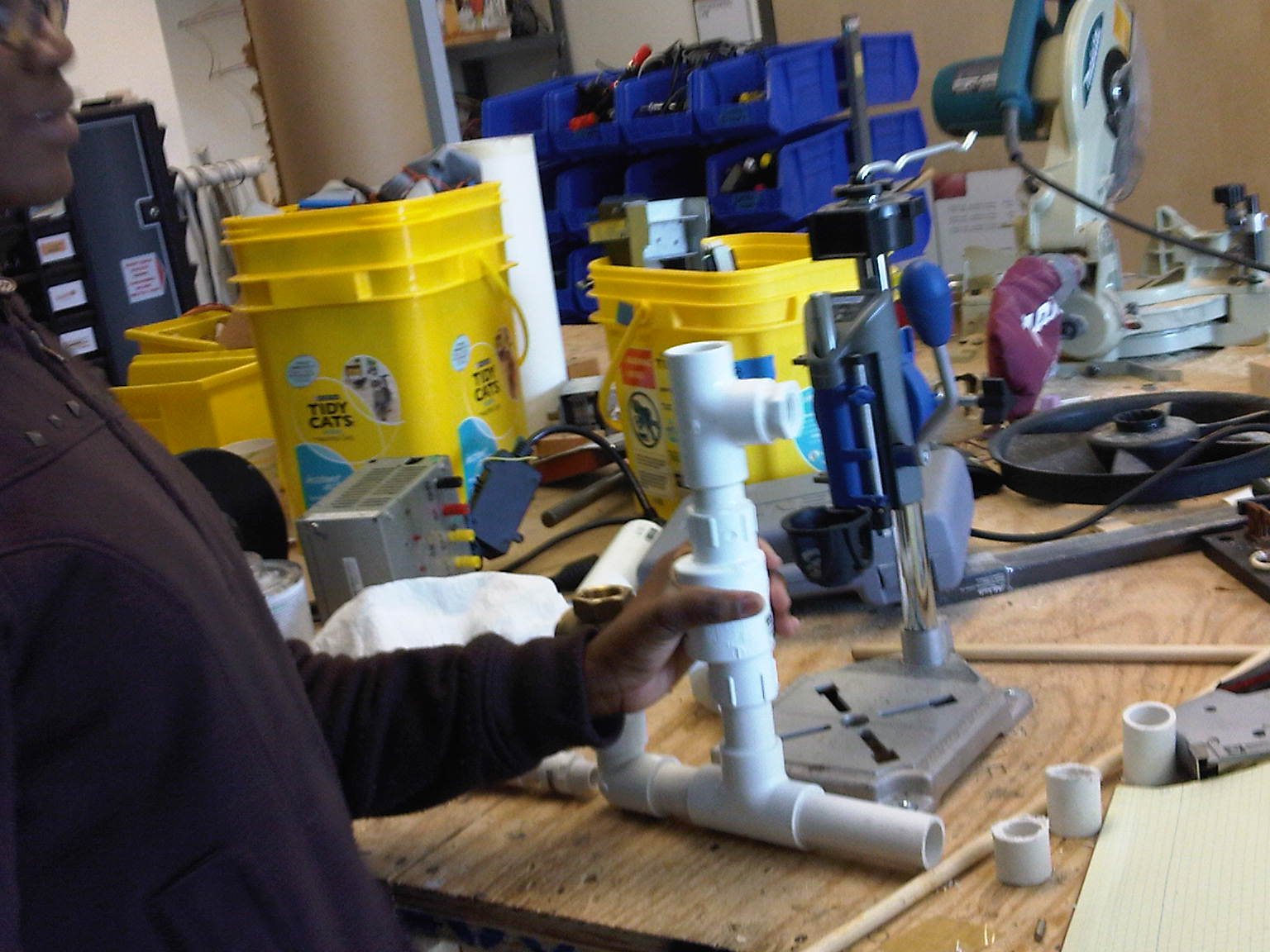 hydraulic ram